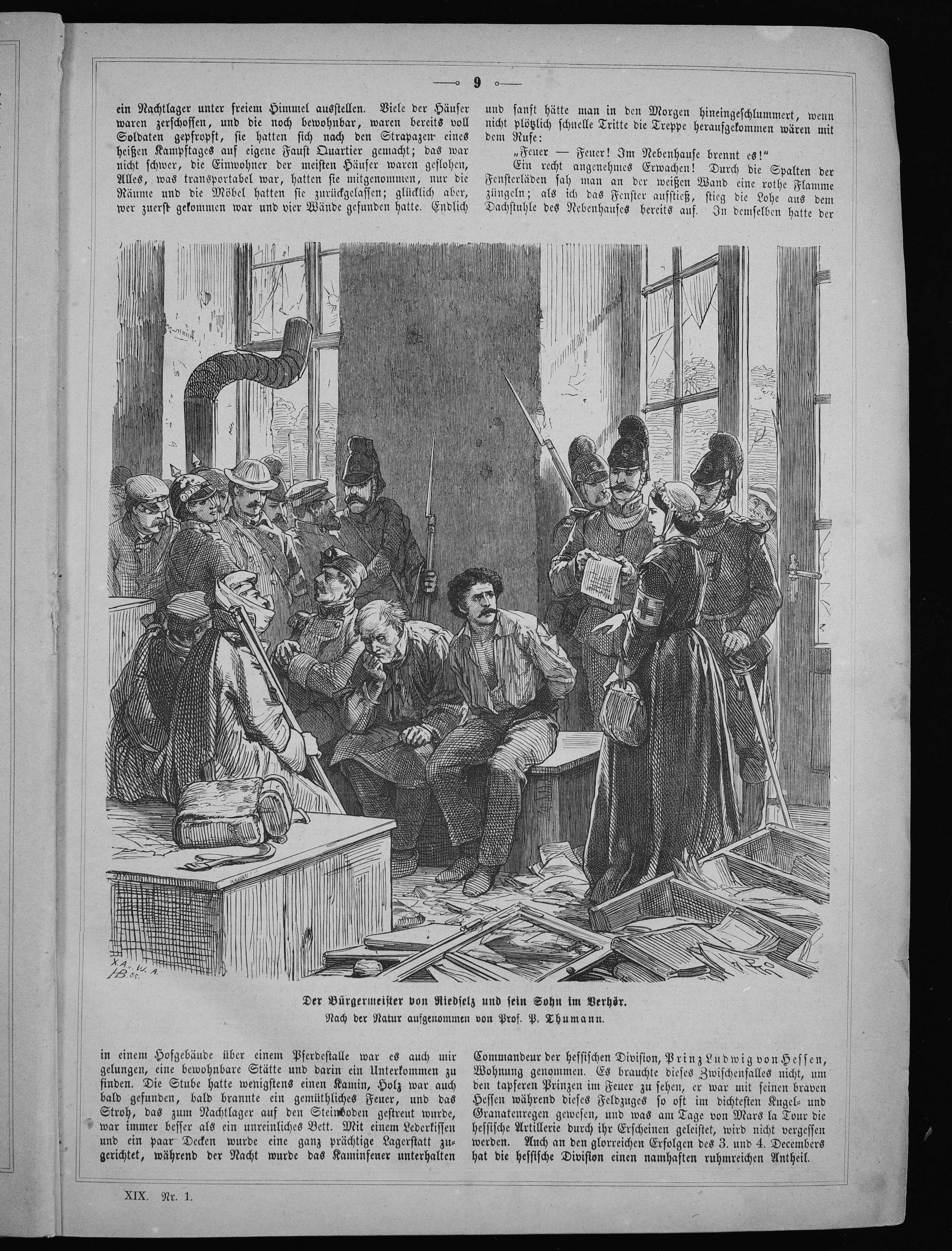 Page 9 from journal Die Gartenlaube for 1871. Extracted image (if any): File:Die Gartenlaube (1871) b 009.jpg - hi res, ~2.5 MB.